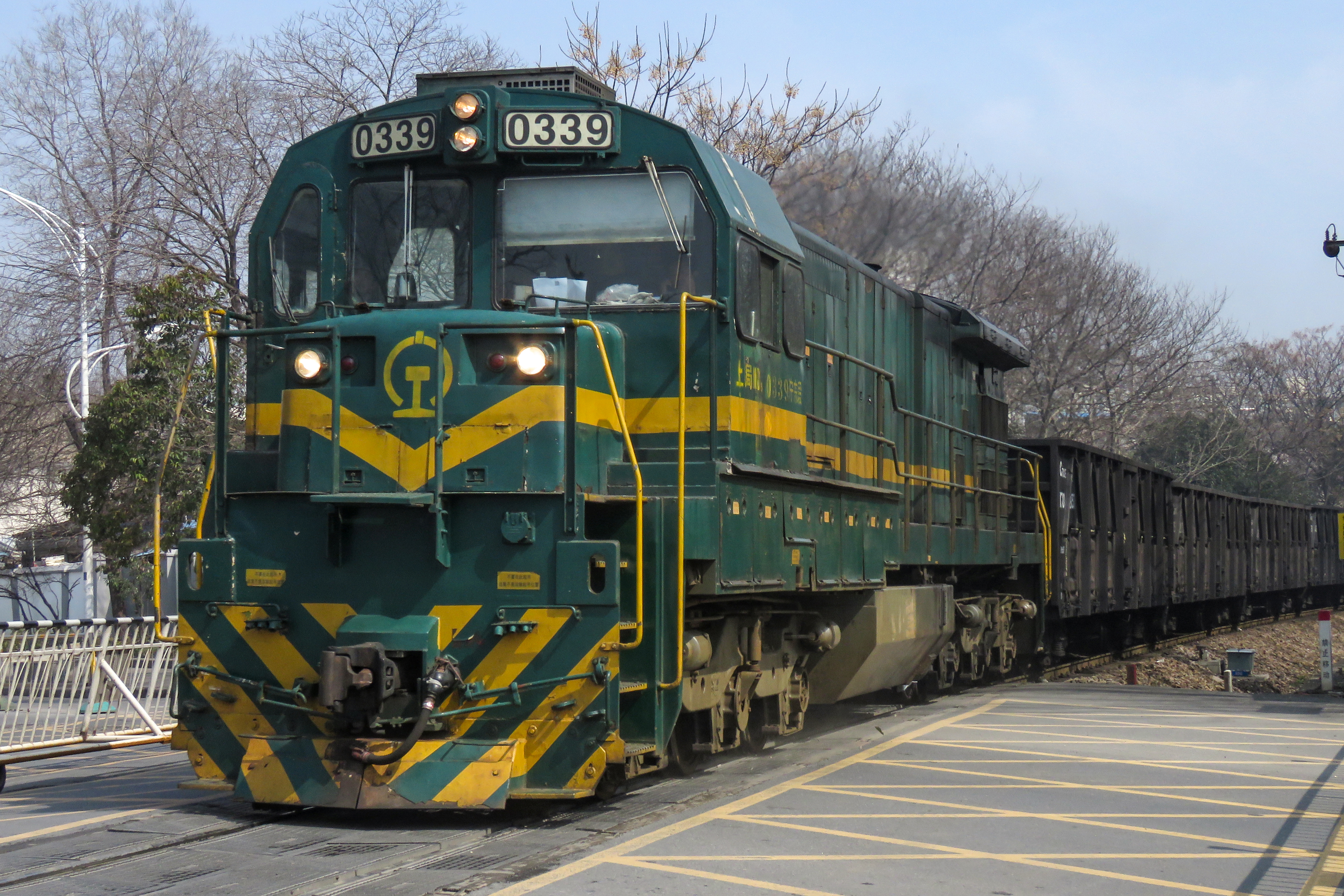 0339, a bit familiar...